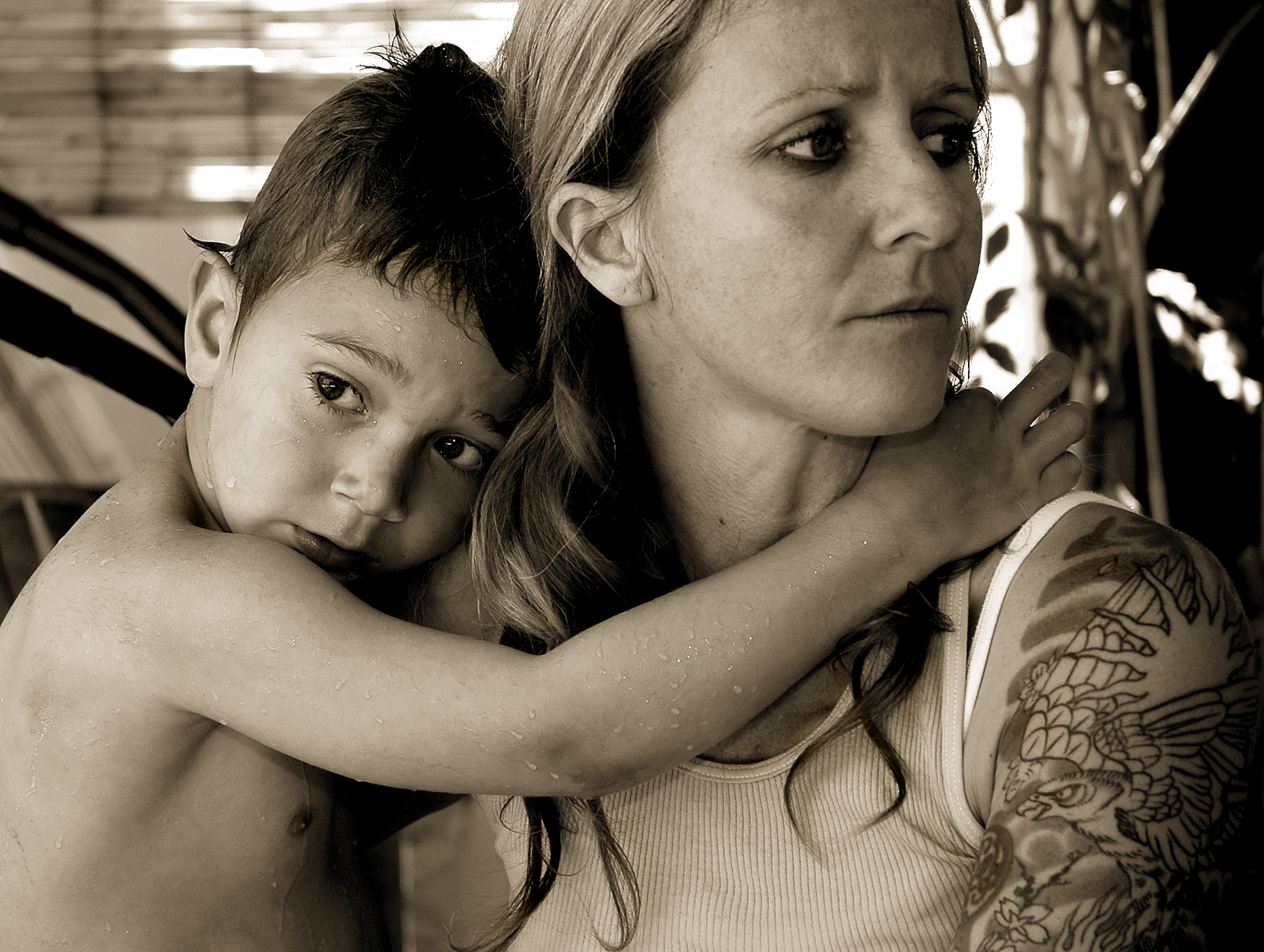 Mother with tatooed arm and wet child.